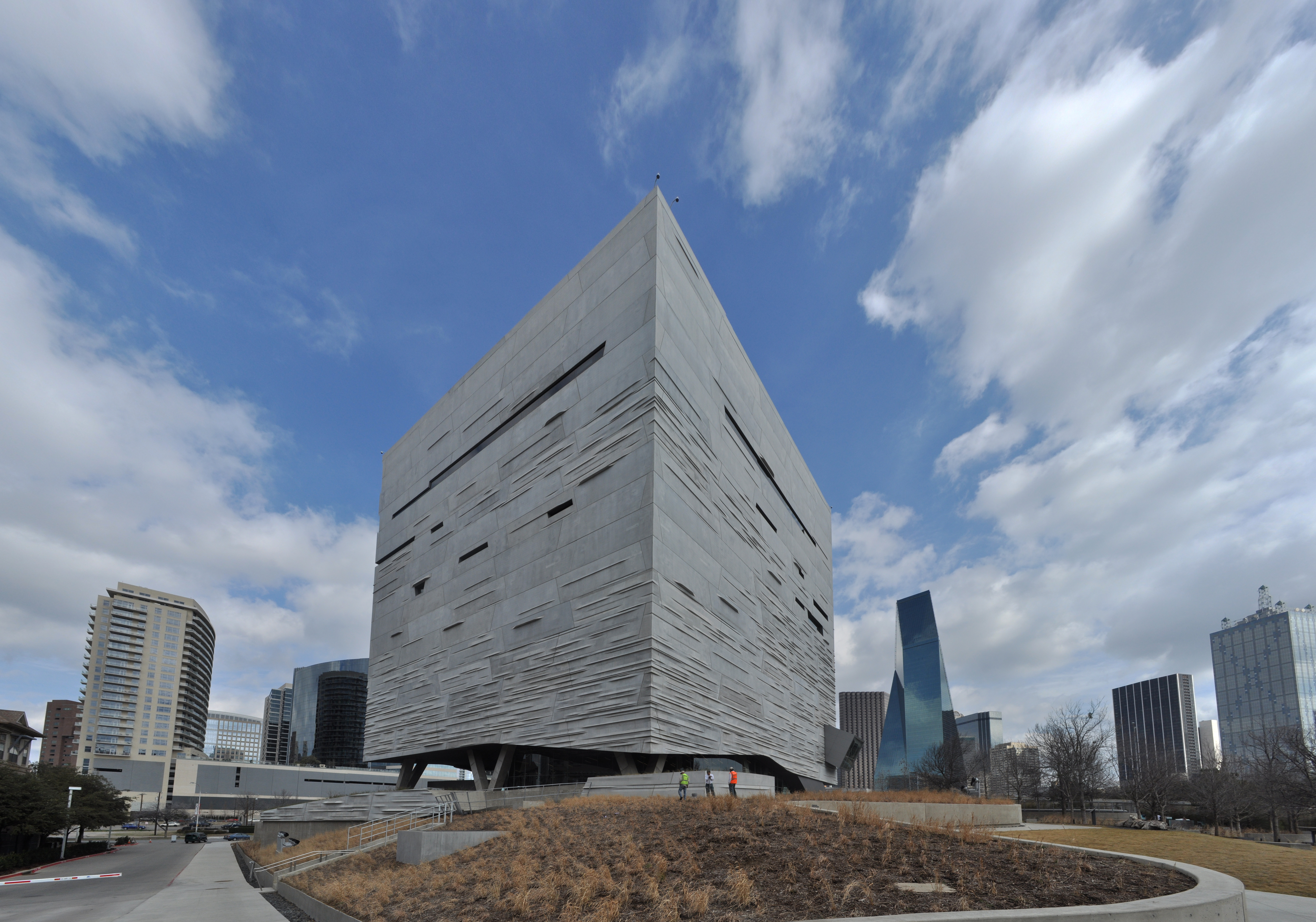 Panoramic view of Perot Museum of Nature and Science, Dallas, Texas and the Dallas skyline to its south (at right) and east (at left). This image was created with Hugin.